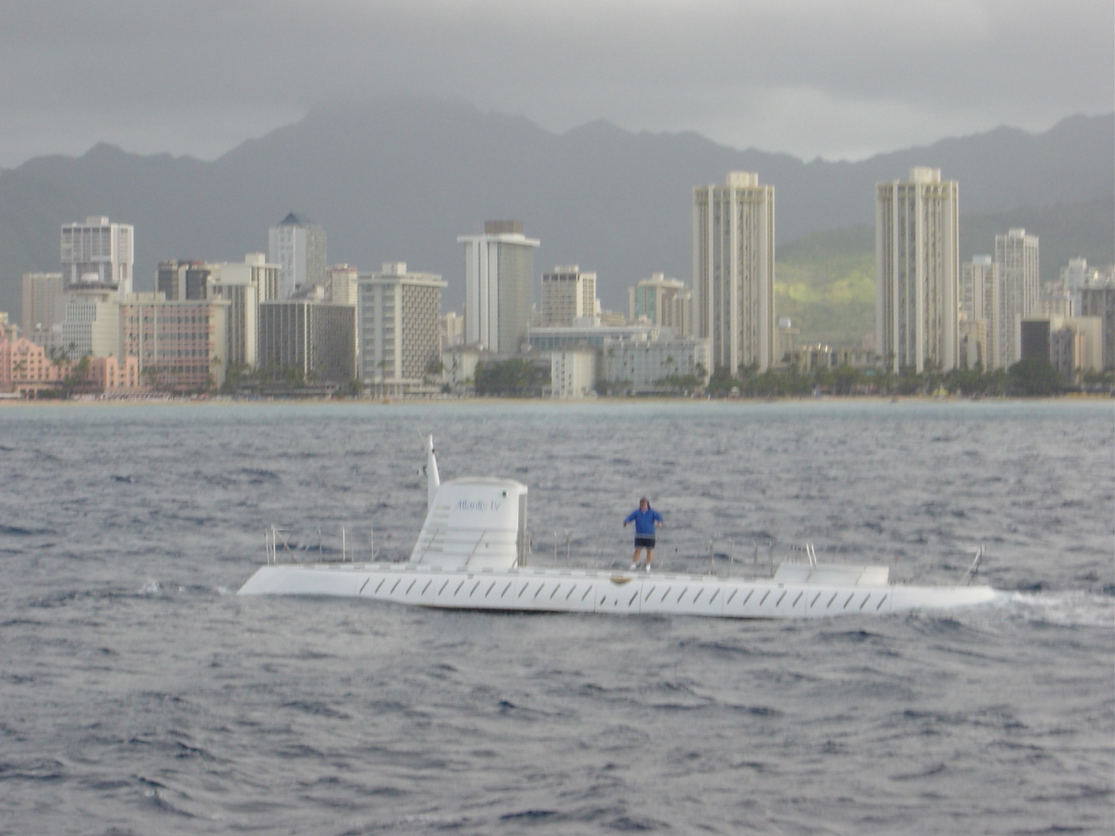 The Submarine Altanta in Hawaii